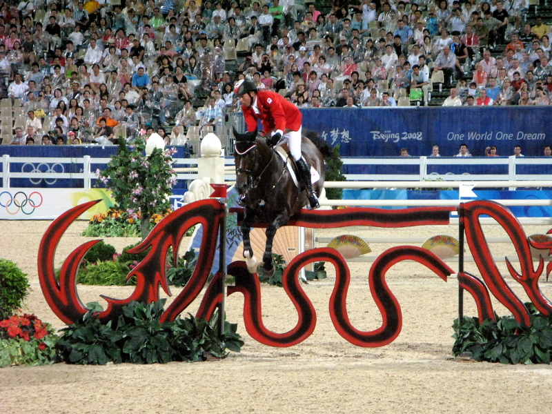 2008 Olympic Games equestrian in Sha Tin